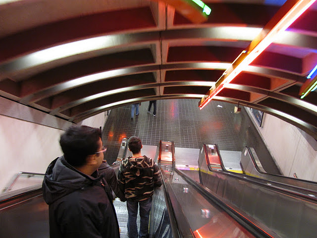 This photo has been taken while going down an escalator in the US.